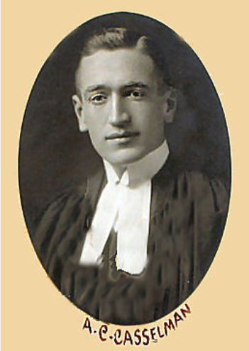 Image depicts Ontario lawyer and political figure Arza Clair Casselman as a young man.